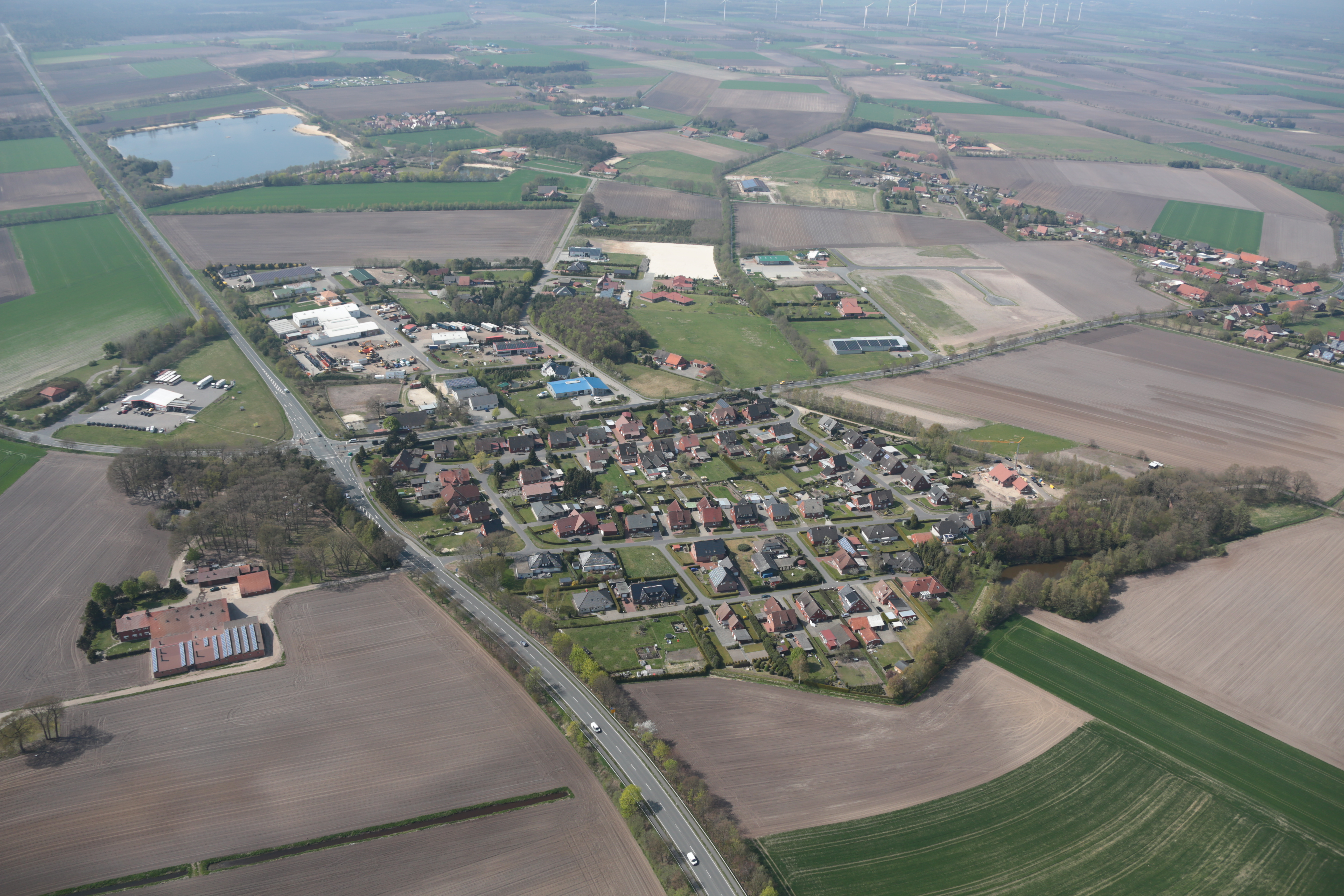 Fotoflug von Nordholz-Spieka nach Oldenburg und Papenburg This photo was taken by Alchemist-hp. If you use one of my photos, an email (account needed) or a message or direct to: my email account would be greatly appreciated. Please note the license terms. Other licensing terms can get discussed, too. This file is copyrighted and has been released under a license which is incompatible with Facebook's licensing terms. It is not permitted to upload this file to Facebook.